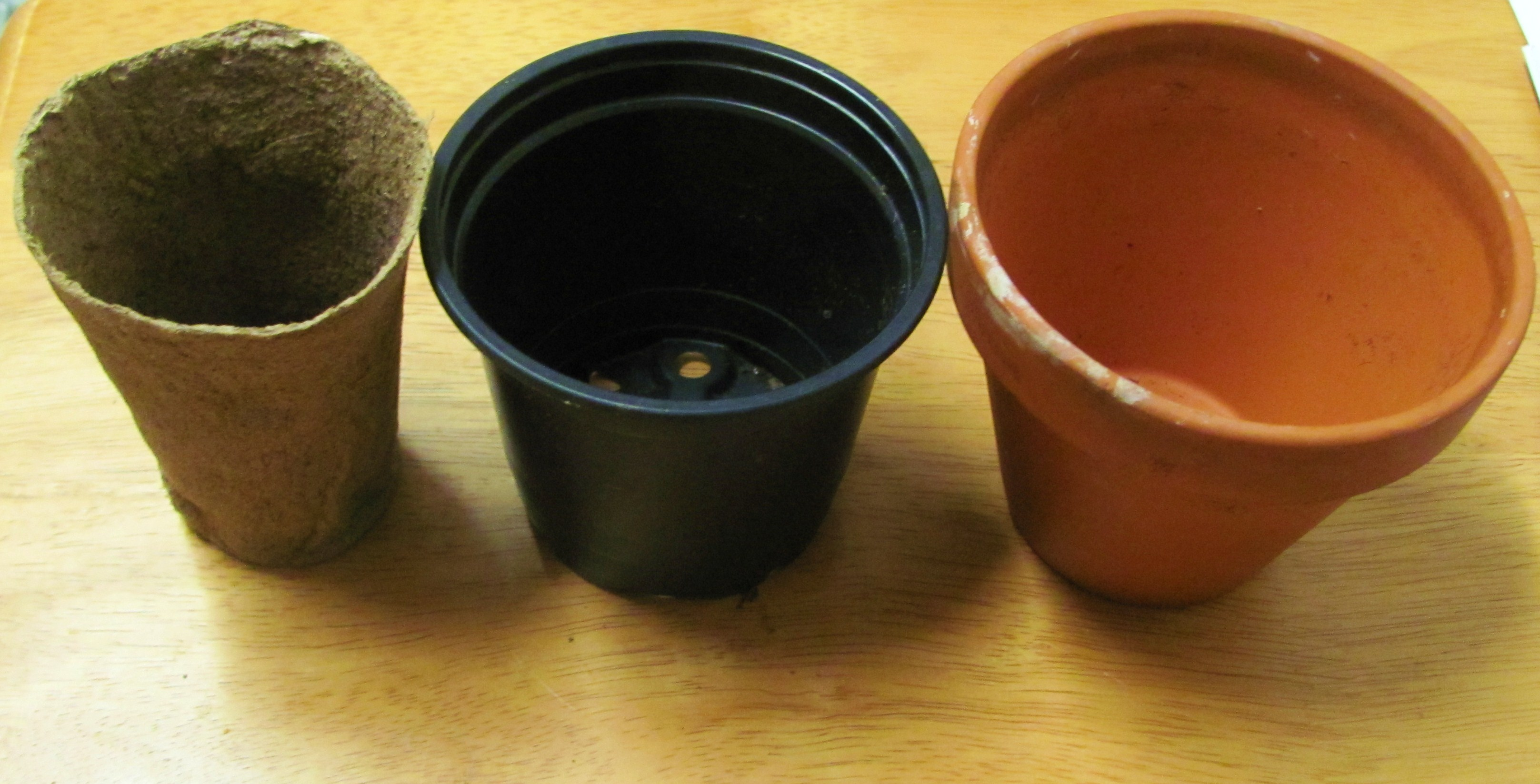 3 pots on table